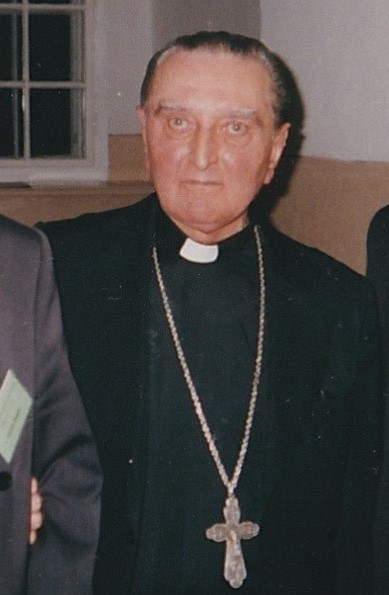 Apostolic Nuncio in Slovakia Luigi Dossena